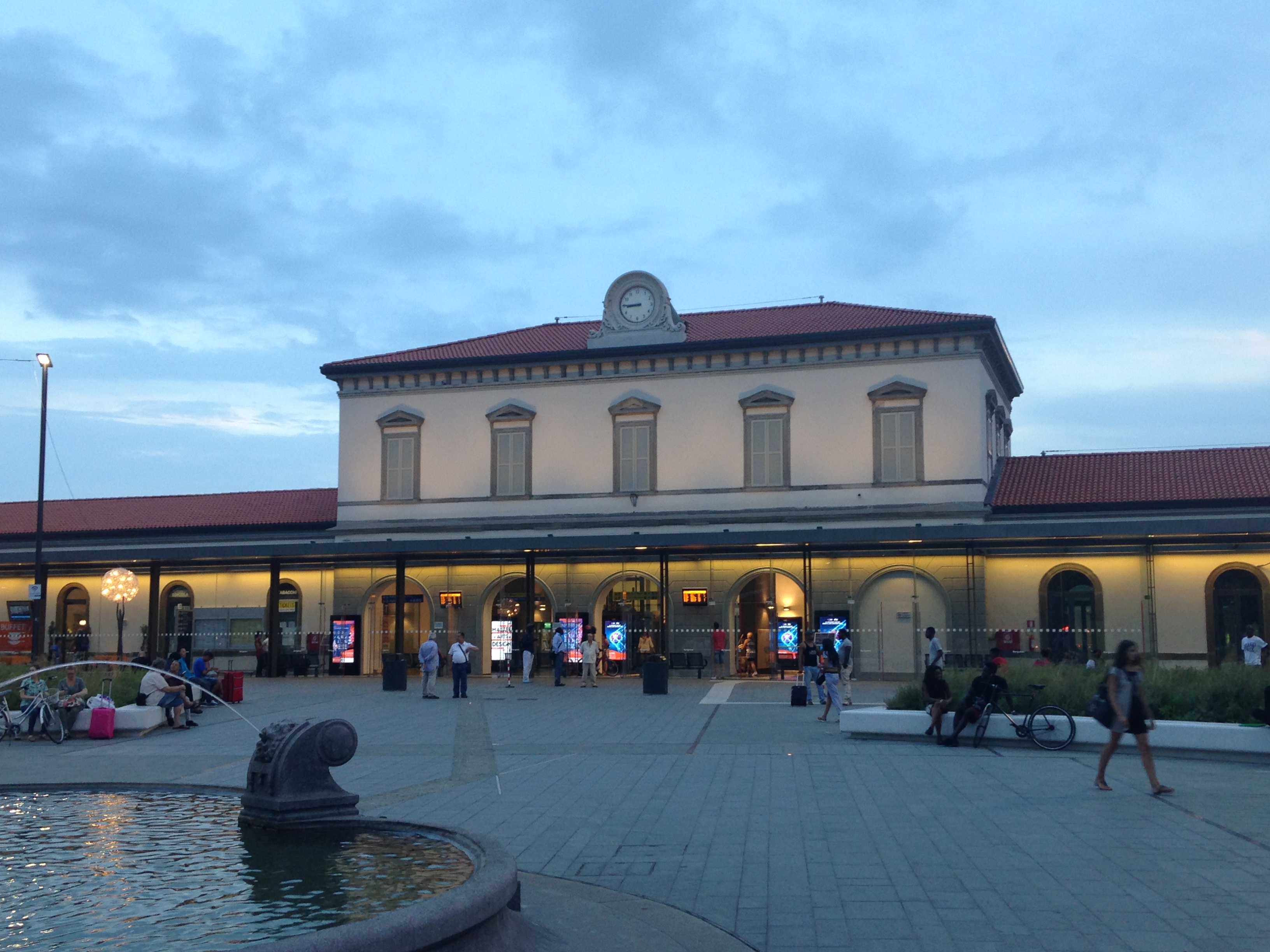 Bergamo railway station after 2012-2015 restyling